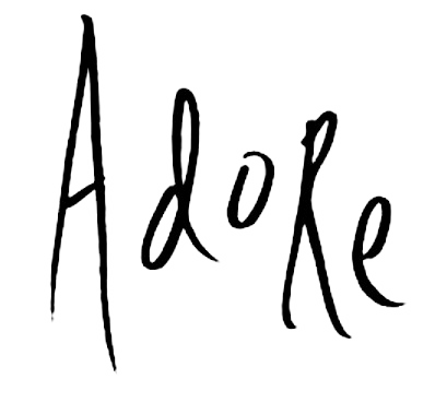 Adore Logo